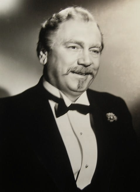 John Alexander in New Orleans - publicity still (original image cropped and modified : see source)